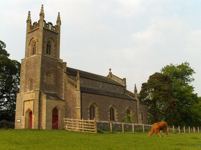 Kincardine Parish Church, Kincardine-in-Menteith, Stirlingshire, Scotland, seen from the southwest